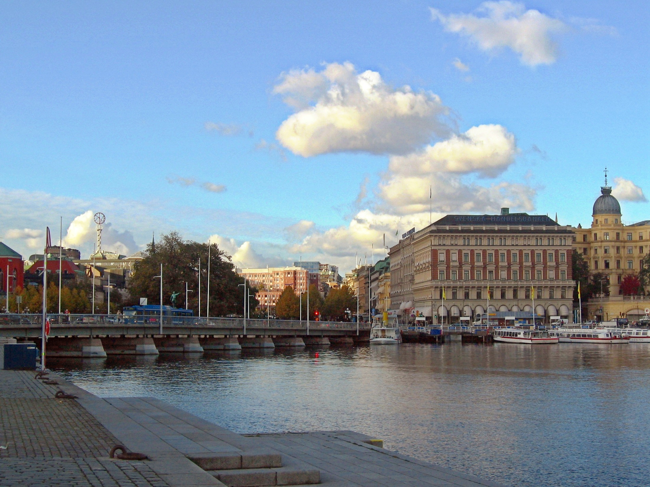 View of the bridge Strombron/ Вид на мост Strombron.